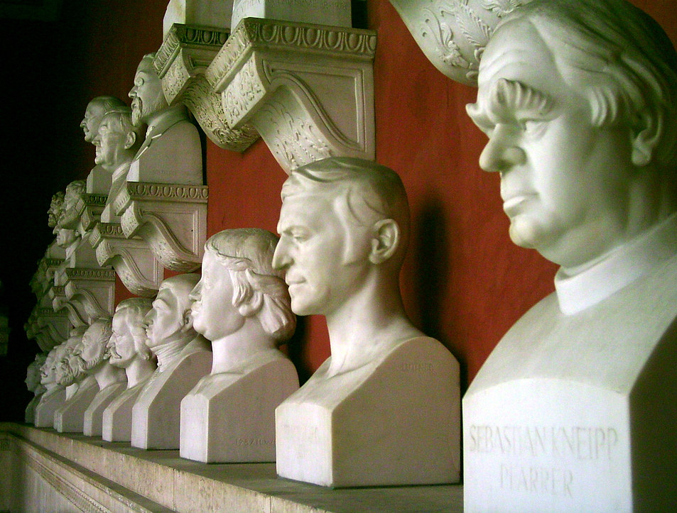 Busts of at right wing of Ruhmeshalle ("Hall of fame"), München, Germany. Bust in foreground, right: Sebastian Kneipp. Picture taken by myself: Dominik Hundhammer, München, 27 March 2006.